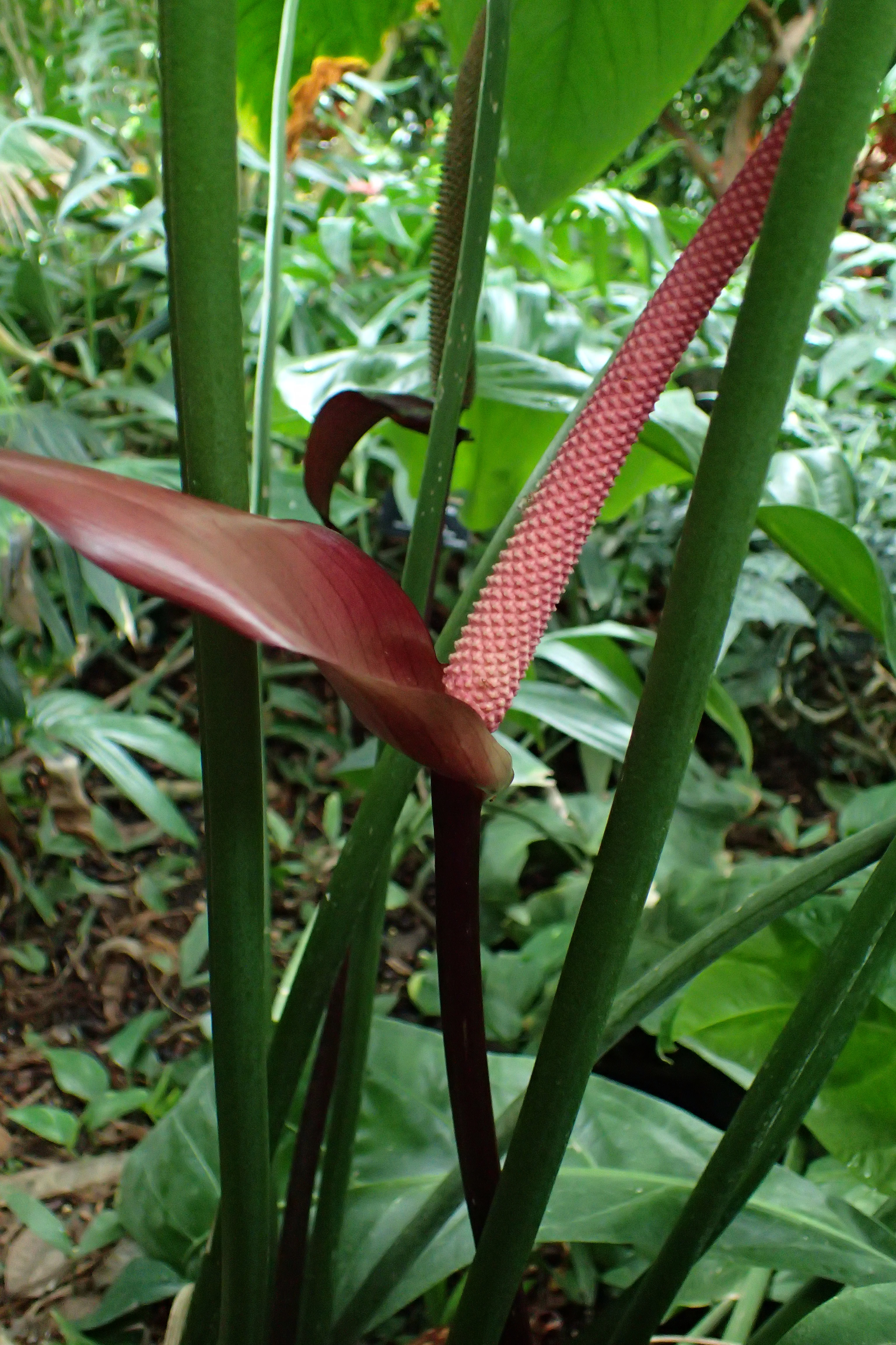 Anthurium watermaliense in the Brooklyn Botanic Garden